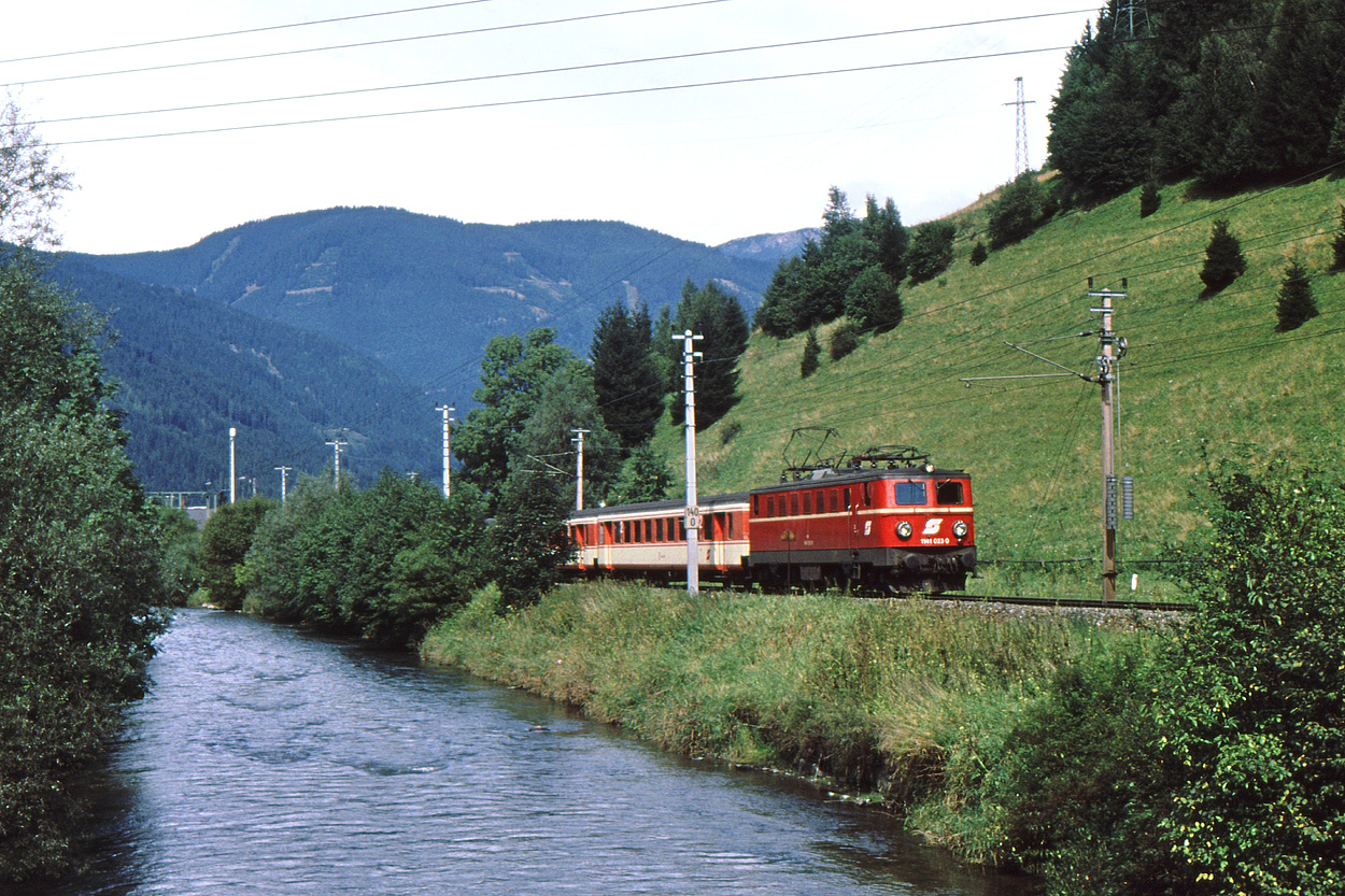 1141 023-0 with regional passenger train heading to Sankt Michael over the Schoberpass